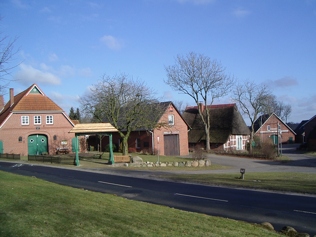 Photo taken by User:Geoz Januaray 2006 Ortsmitte, links das Heimatmuseum "Jan Christopher-Hus"